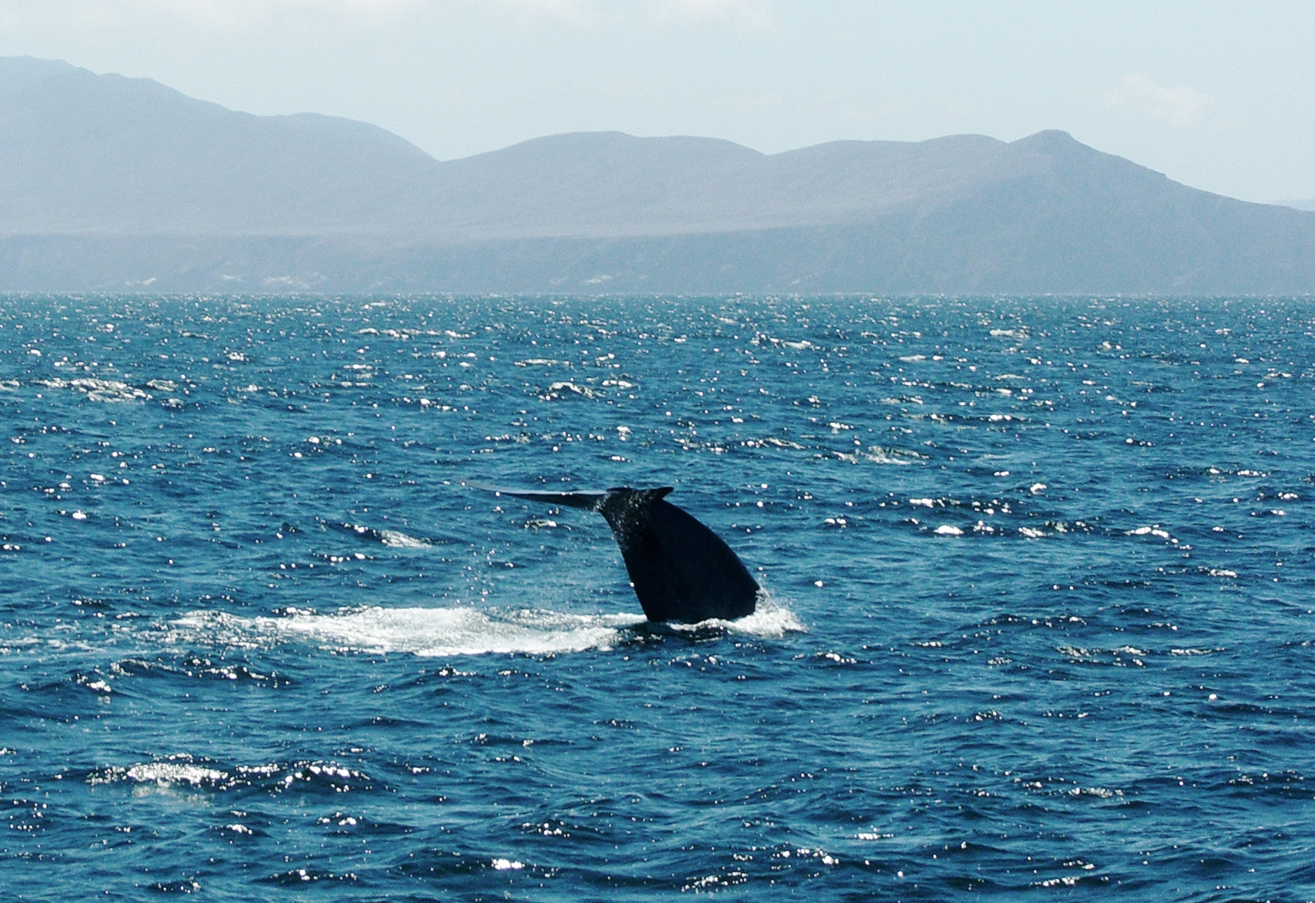 Image of a Blue Whale's tail fluke with the Santa Barbara Channel Islands in the background. August 2007.